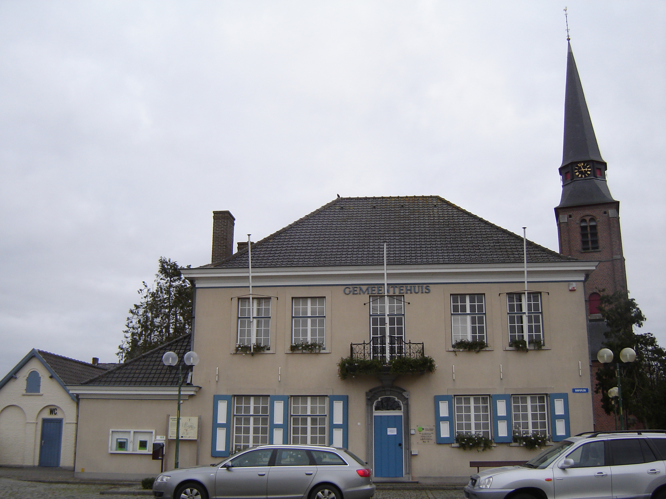 Former rectory, later former town hall in Waardamme. Waardamme, Oostkamp, West Flanders, Belgium